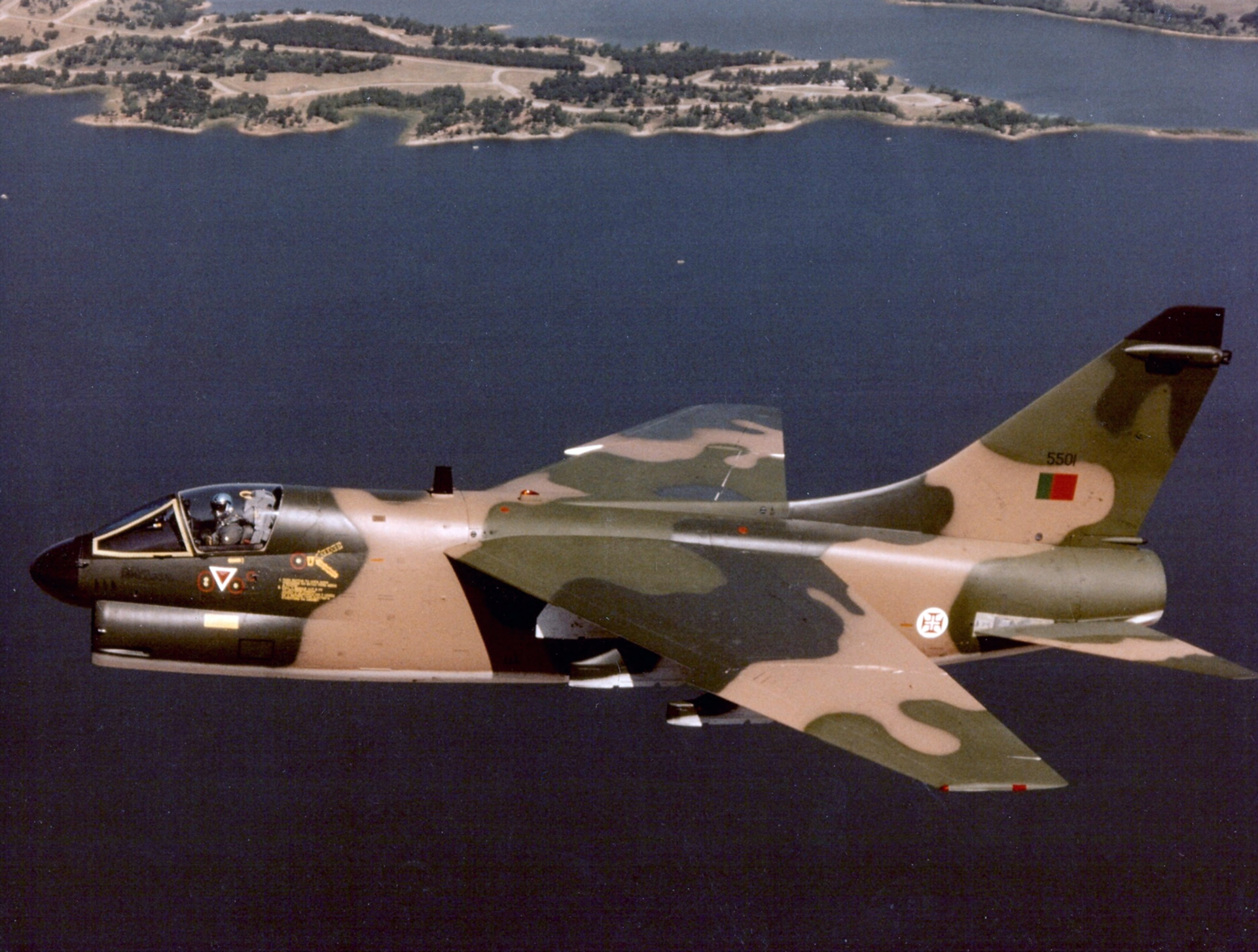 A Portugese Air Force (Força Aérea Portuguesa) Ling-Temco-Vought A-7P Corsair II (s/n 5501) in flight. This aircraft had been delivered to the U.S. Navy as A-7A-4c-CV BuNo 154352 (c/n A-191) and was retired to the MASDC as 6A0083 on 16 November 1977. Portugal operated A-7P's from 1985 to 1999, but this aircraft was destroyed in an accident in Belgium in 1985.